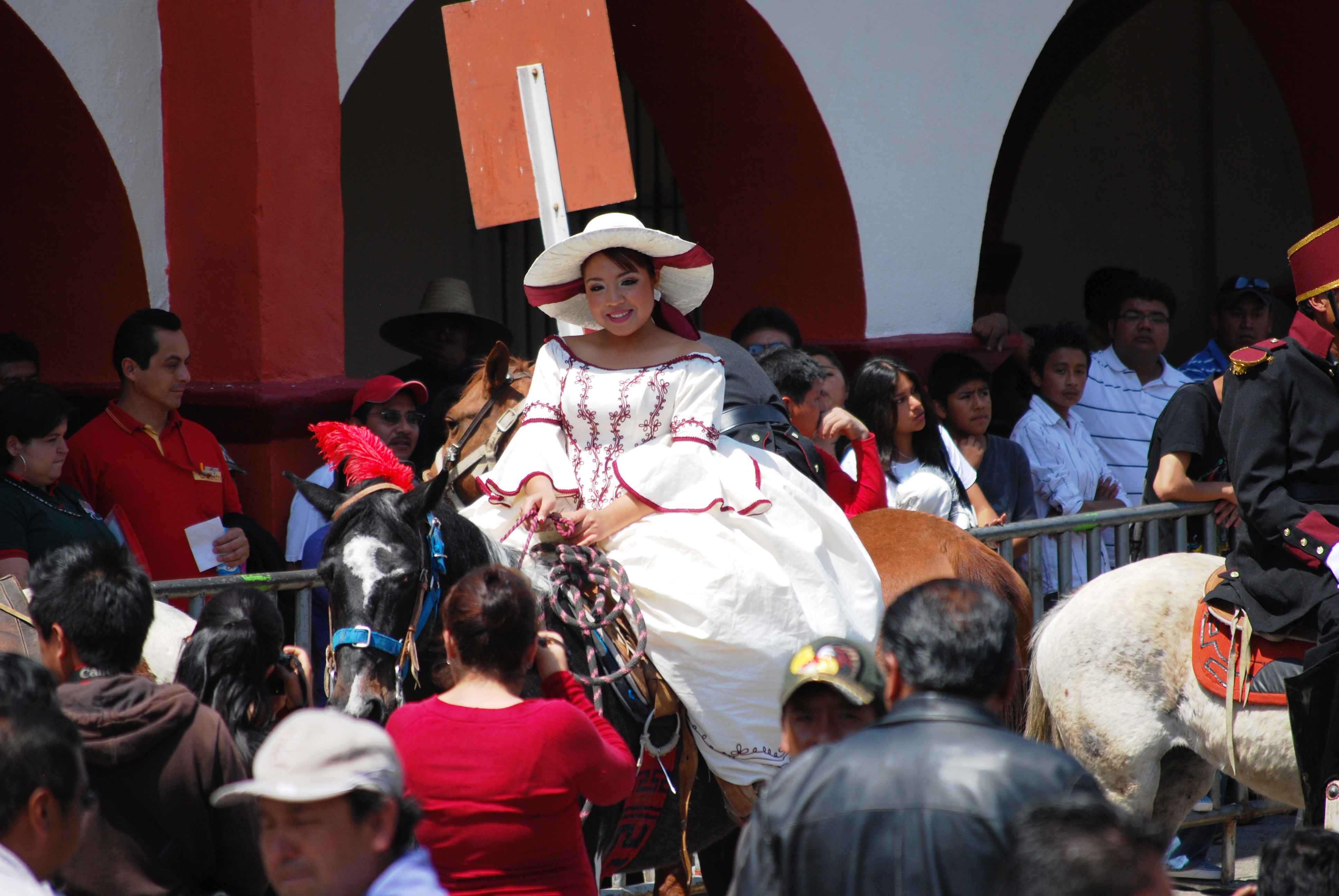 The corregidor's daughter during opening ceremonies of the 2011 Huejotzingo Carnival in Puebla, Mexico